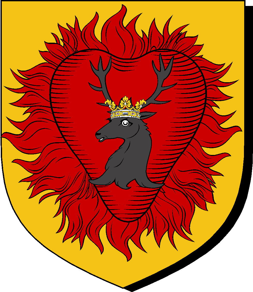 Arms of King Stannis Baratheon. Based on Song of Ice and Fire books.